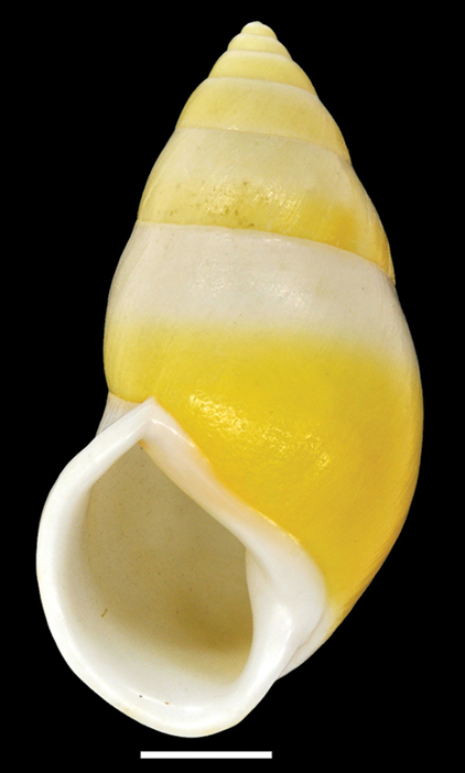 Photo of an apertual view of a shell of Amphidromus perversus natunensis, paralectotype NHMUK 1894.2.1.9–19. Scale bar is 10 mm.